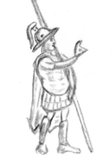 Indo-Greek infantry officer. Personal drawing 2006. Photographic reference on a coin of Menander II, circa 90 BCE: Image:MenanderIIQ.jpg